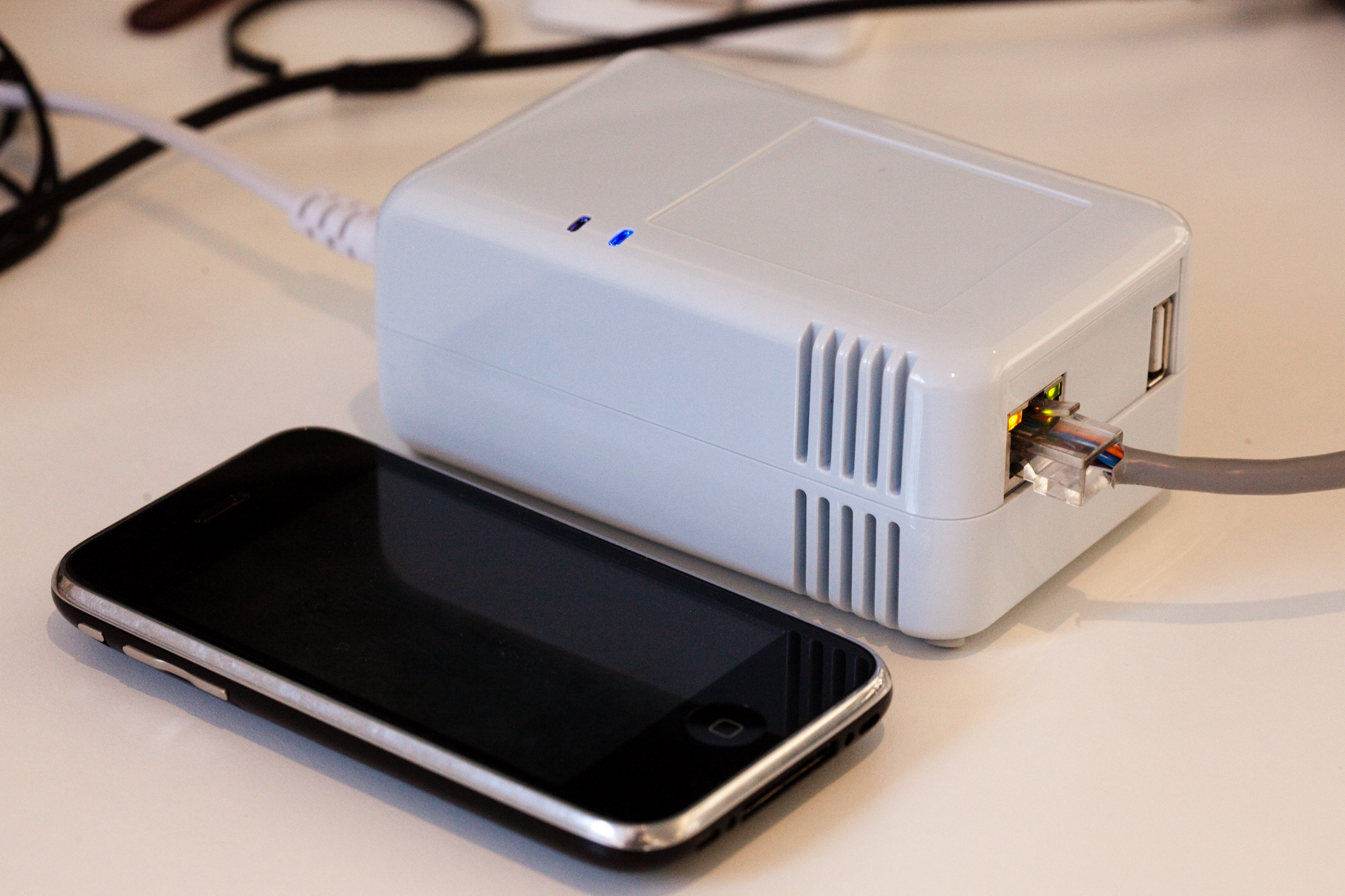 Sheevaplug plug computer with iPhone for scale.